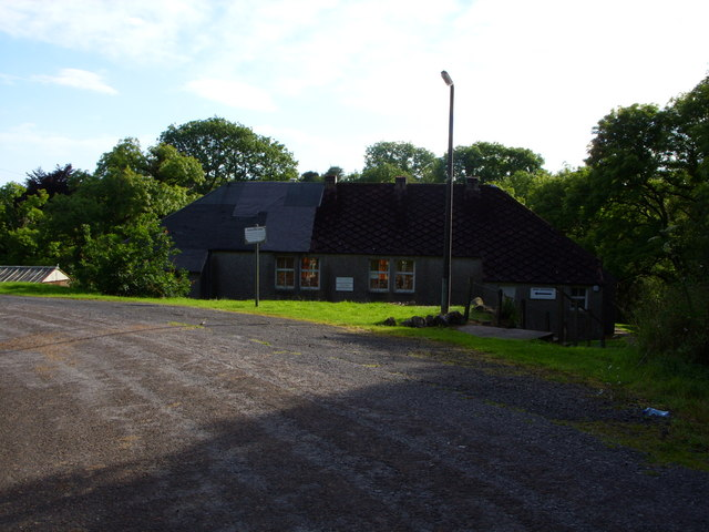 Bargrennan Hall